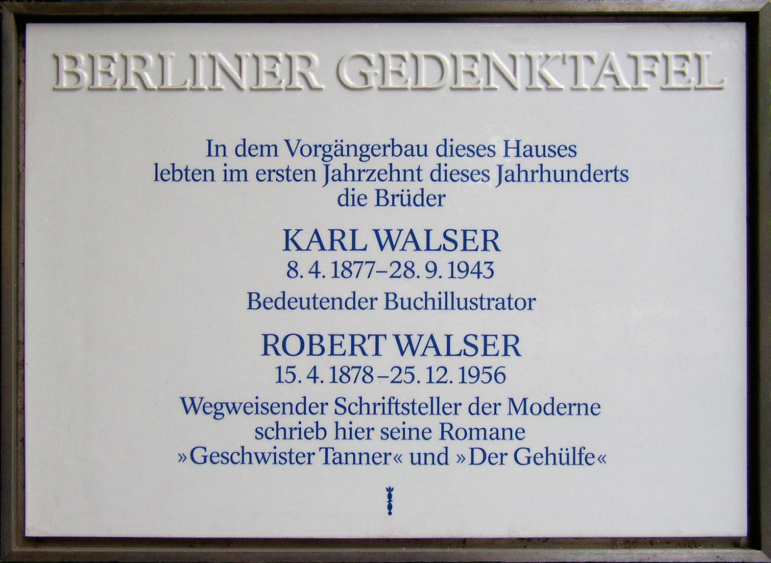 Berlin memorial plaque, Karl Walser, Kaiser-Friedrich-Straße 70, Berlin-Charlottenburg, Germany Koordinate:52°30′37″N 13°18′7″E / 52.51028°N 13.30194°E